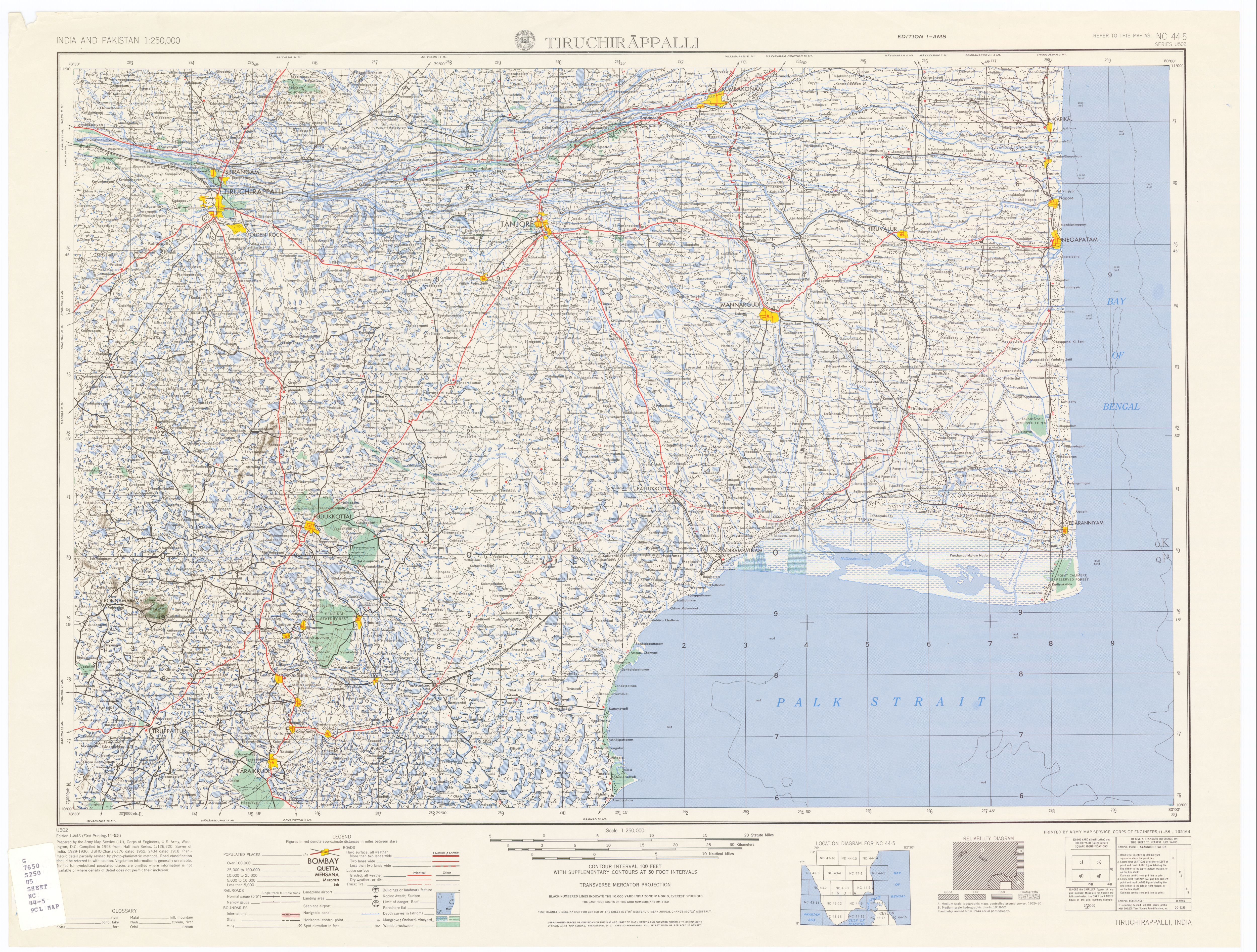 NC 44-5 Tiruchirappalli. Tile of the Map India and Pakistan 1:250,000. Series U502, U.S. Army Map Service, 1955